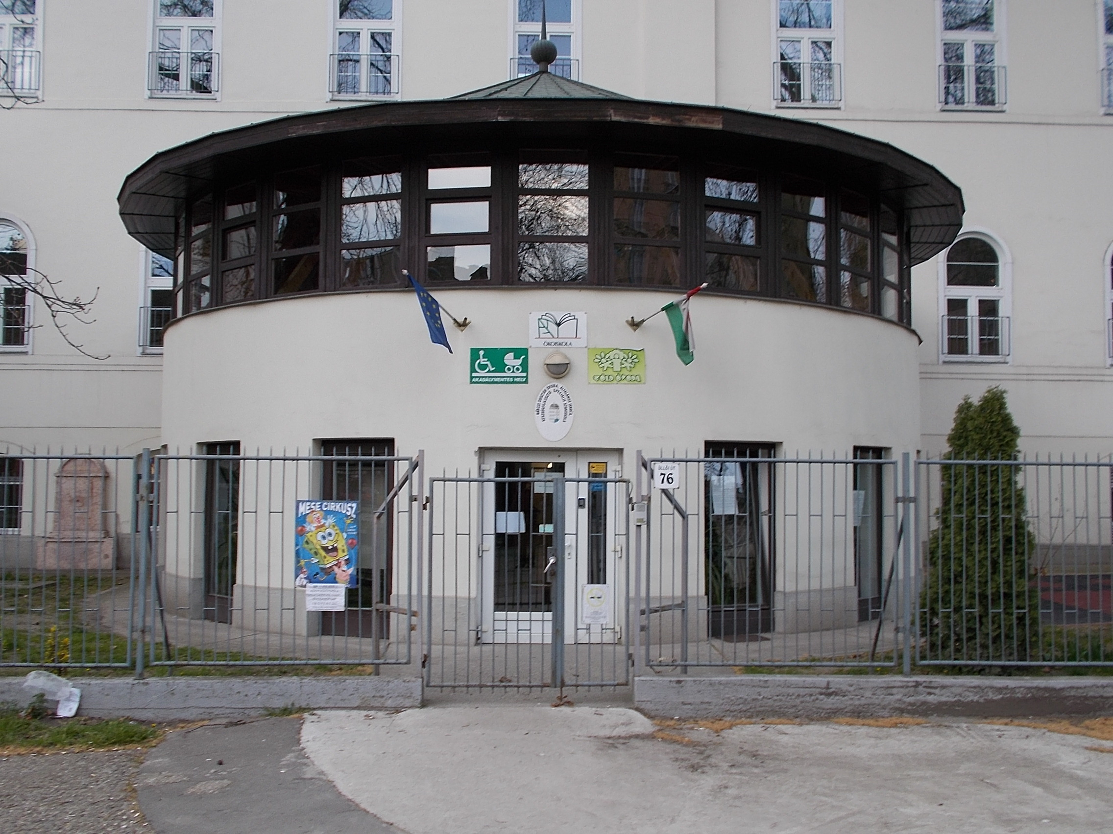 Budapest Bárczi Gusztáv Kindergarten, Elementary and Special Skills Vocational School. - 76 Üllői Avenue, Corvin neighbourhood, Budapest District VIII.